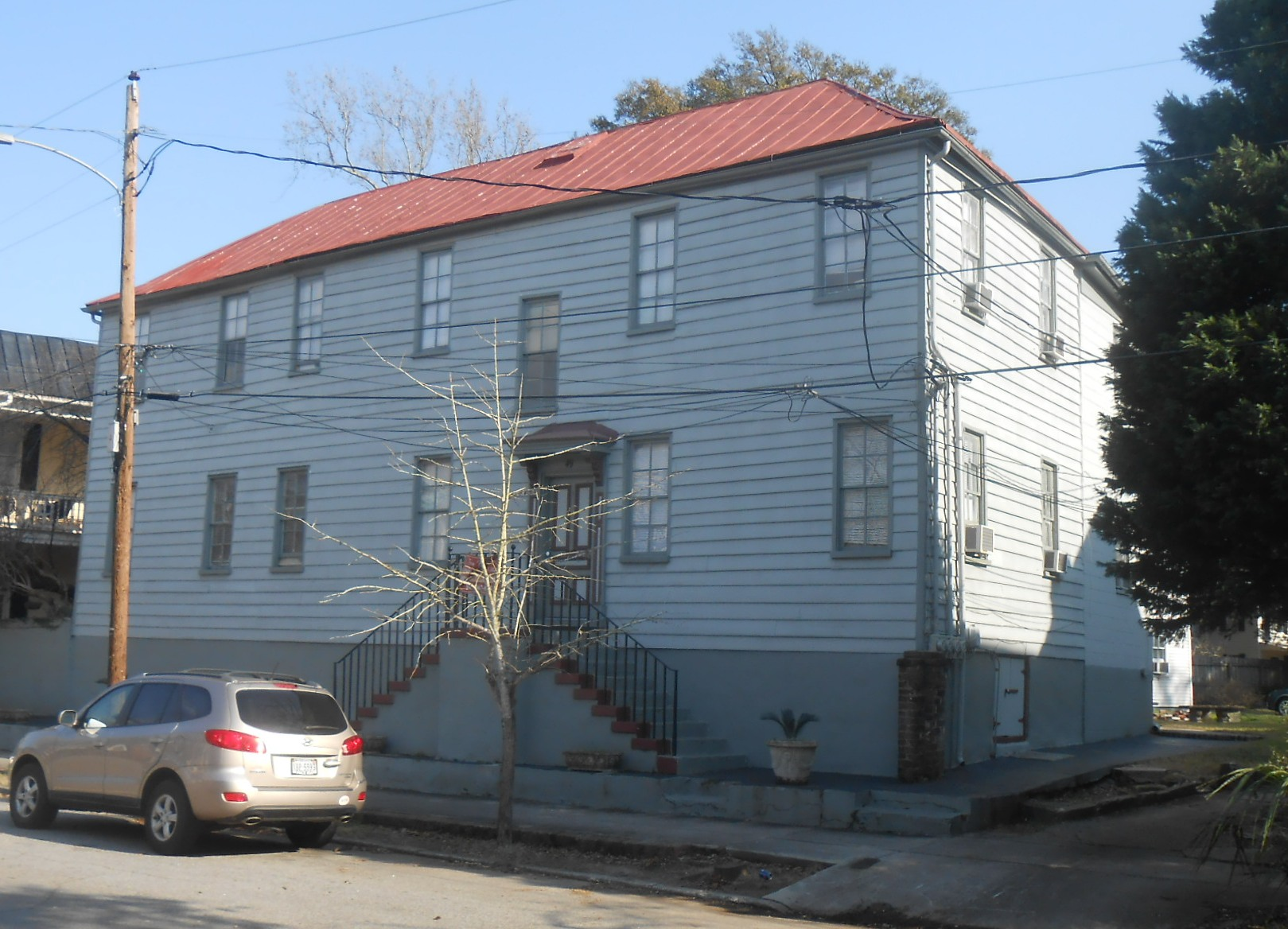 49 Chapel Street, Charleston, South Carolina